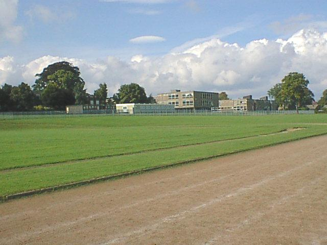 Tupton Hall School and Sports Track Prior to Re-Development